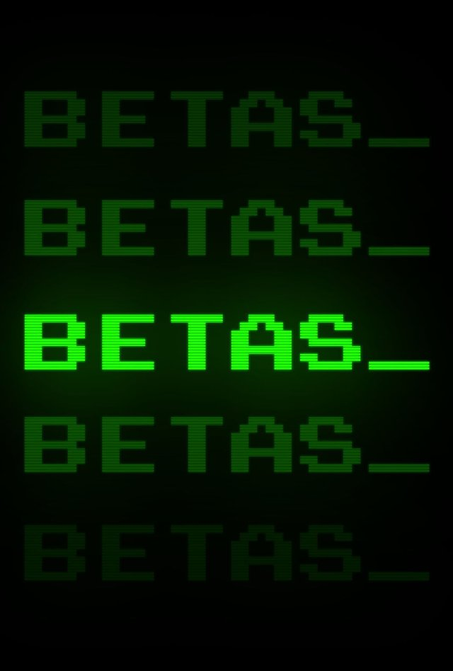 betas tv